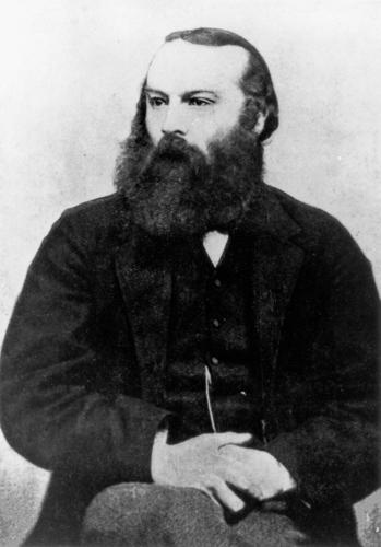 Image title:Harlin Thomas was the first headmaster of Brisbane Grammar School, ca. 1870 Description:Harlin Thomas, the first Headmaster of Brisbane Grammar School, 1870.